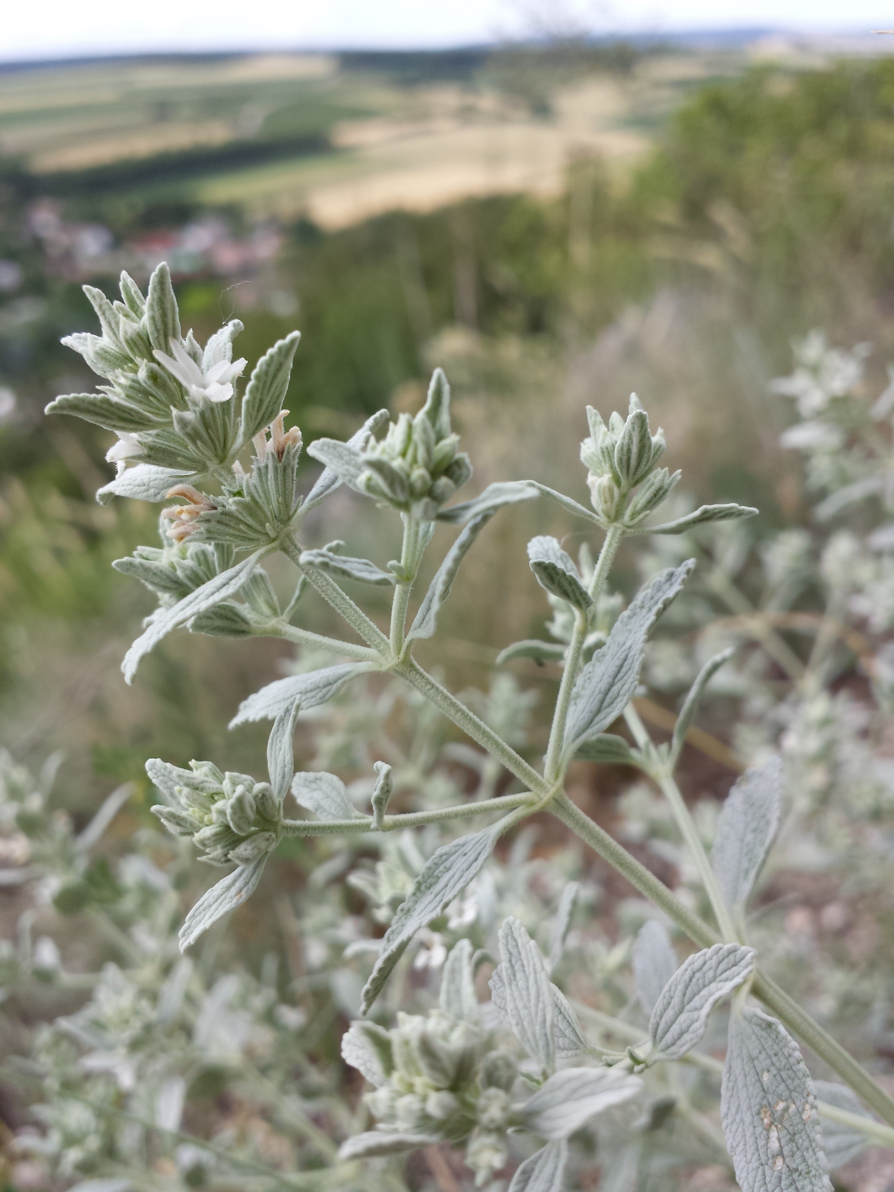 Florescence Taxon: Marrubium peregrinum (sensu Fischer et al. EfÖLS 2008 ISBN 978-3-85474-187-9; det. W. Adler 2014-06-21) Location: Staatzer Klippe, district Mistelbach, Lower Austria - ca. 300 m a.s.l. Habitat: rock steppe This media shows the natural monument in Lower Austria with the ID MI-052.